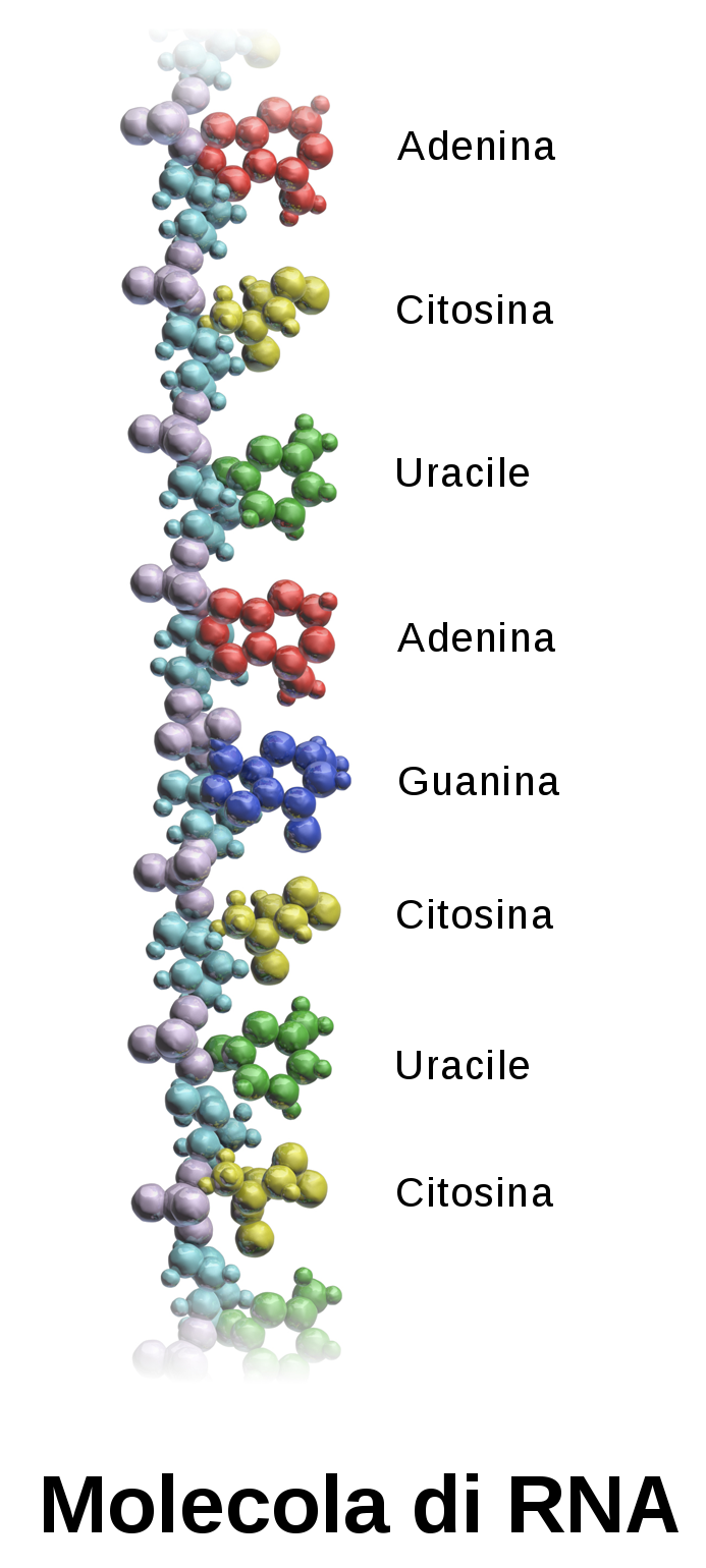 RNA. See a related animation of this medical topic.